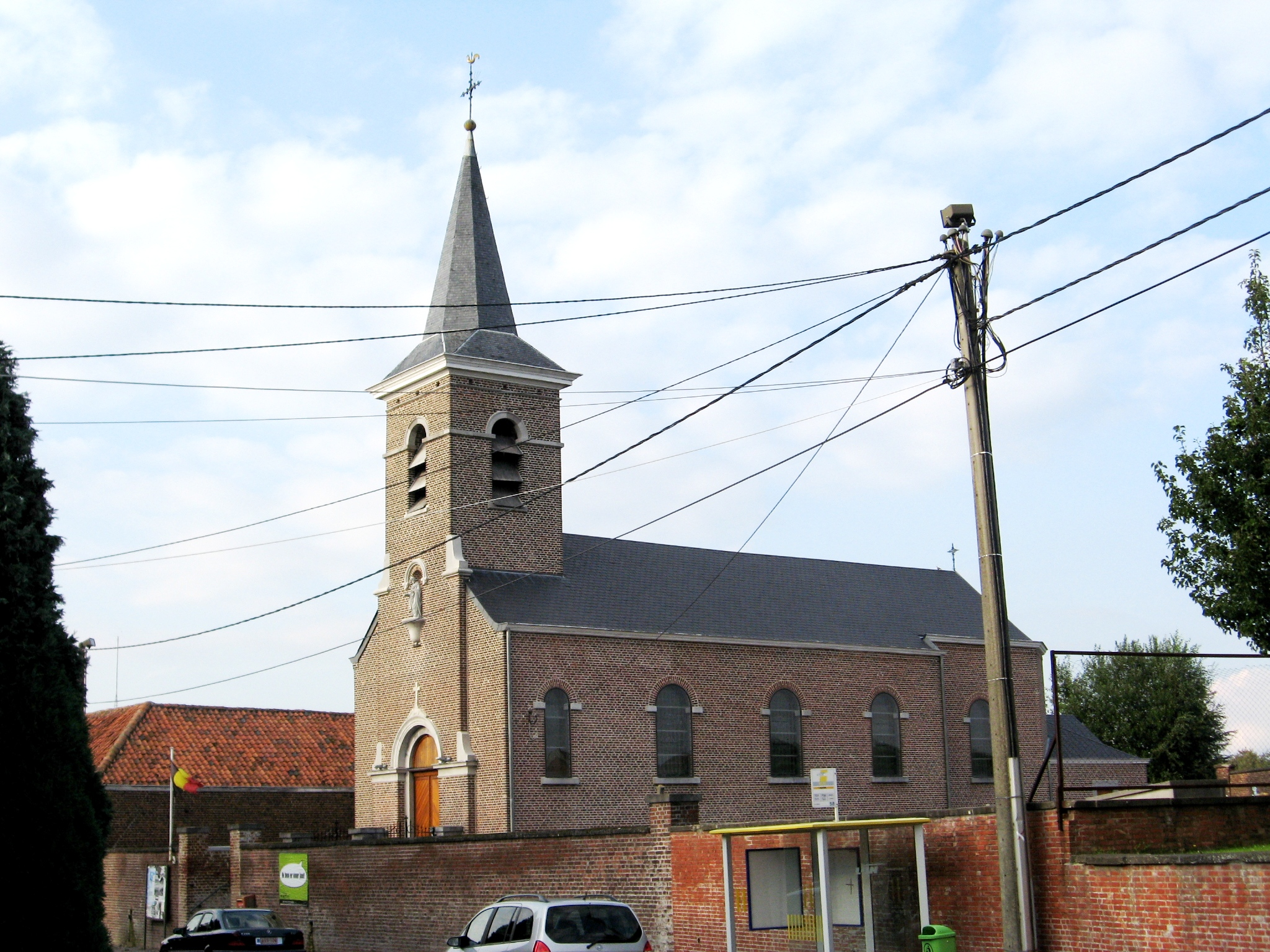 Church of Saint Peter in Boekhout, Gingelom, Limburg, Belgium